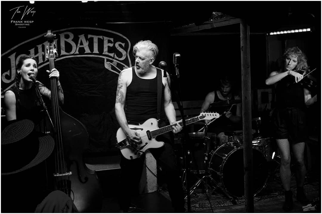 Live photograph in Cologne, DE